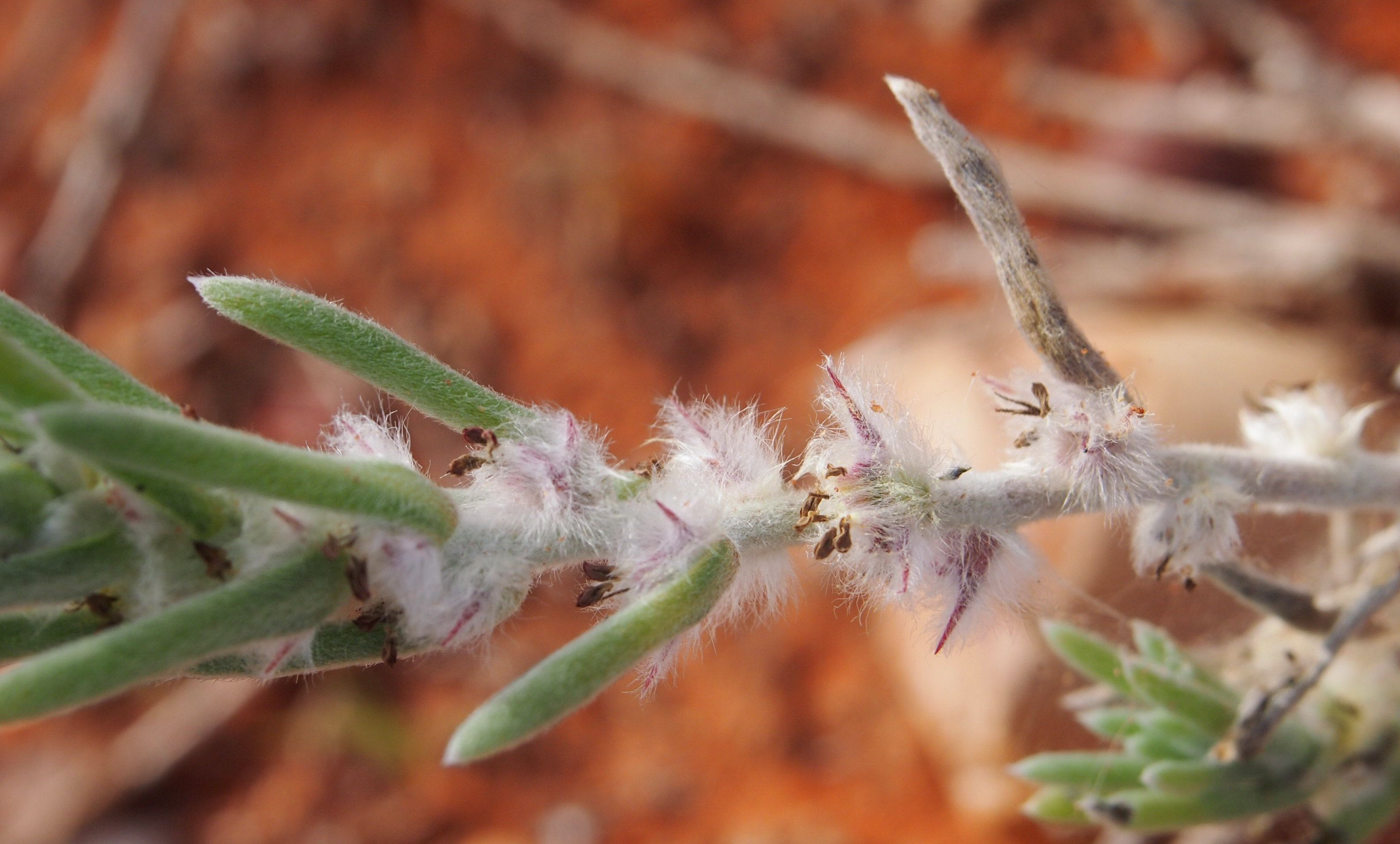 Sclerolaena lanicupis fruit